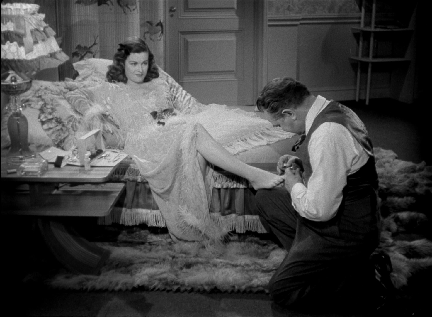 Screenshot of Joan Bennett and Edward G. Robinson from the film Scarlet Street